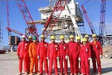 Petroleum Engineering students in the field